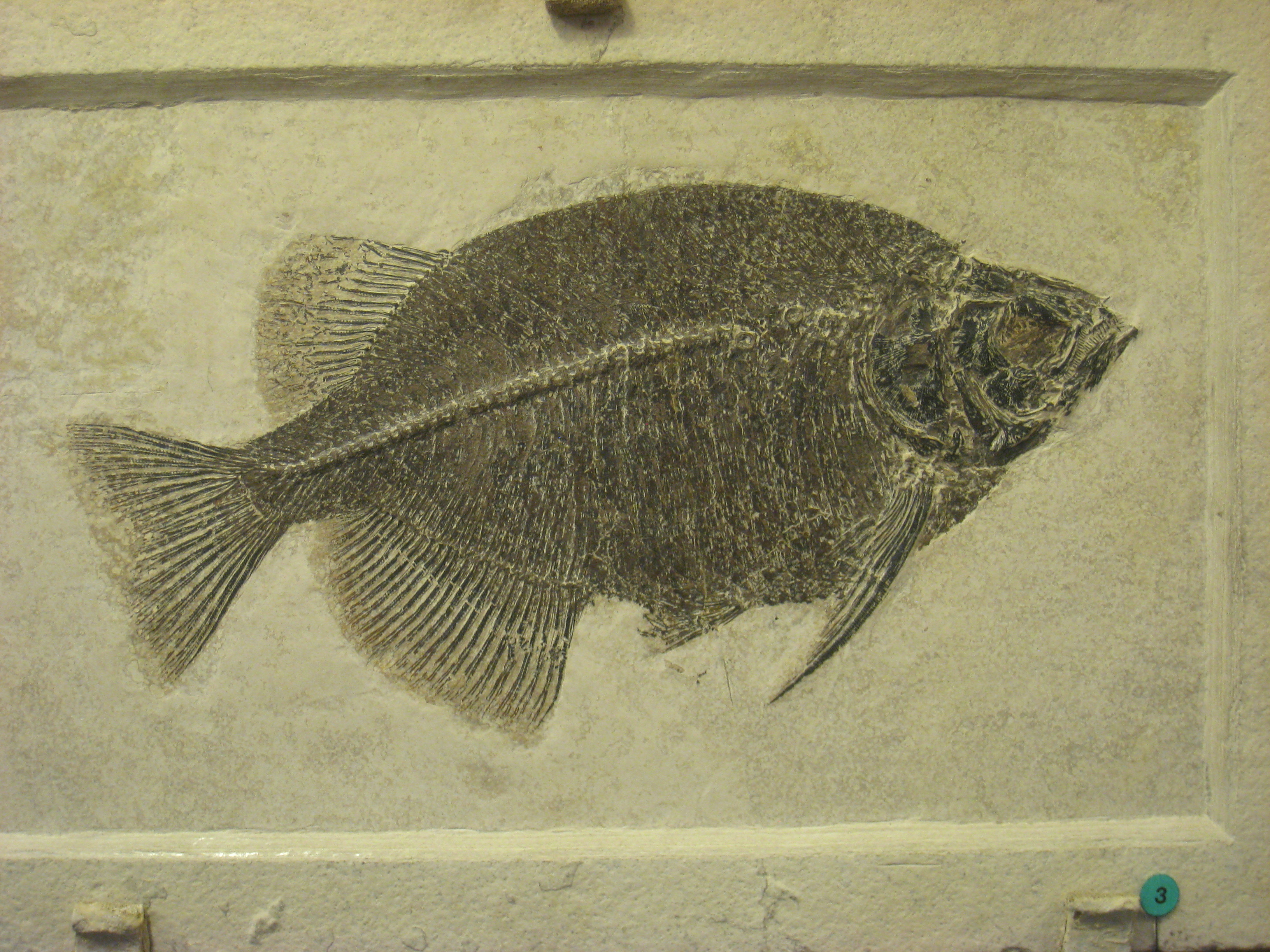 Phareodus testis fossil in the Buffalo Museum of Science, Buffalo, New York, USA.